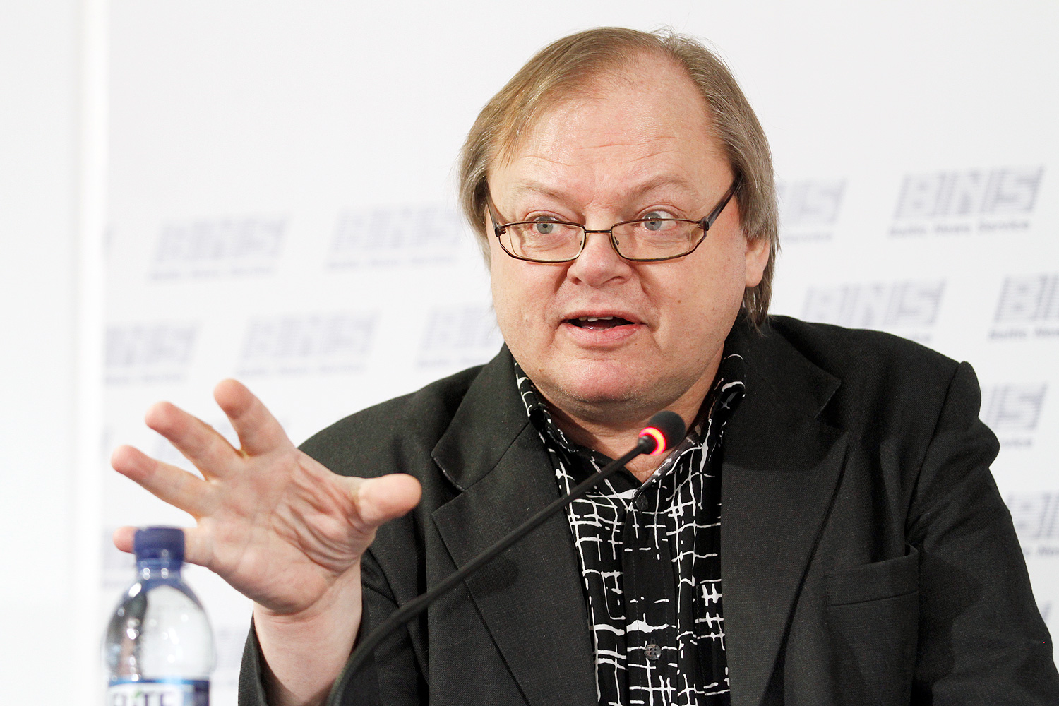 Ornitologist Algirdas Knystautas